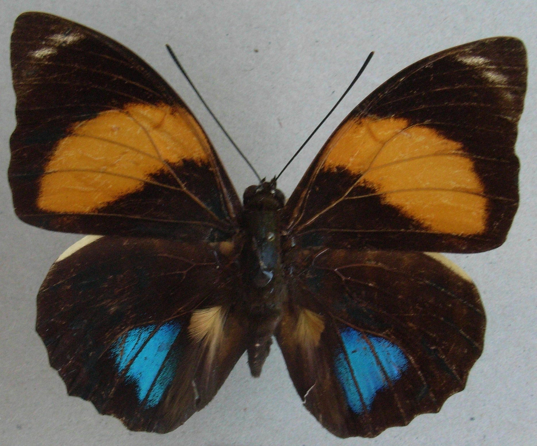 Type of Agrias amydon athenais ab. amaryllis